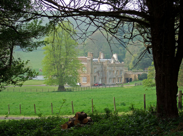 Bridehead House from the Littlebredy road Pevsner describes this (Buildings of England: Dorset) as essentially an early 19th century Tudor style building, with some 16th century work inside. The house was rebuilt circa 1837 by F. P. Robinson, and extended westwards by Benjamin Ferrey during the 1850's. It is Grade II* listed.